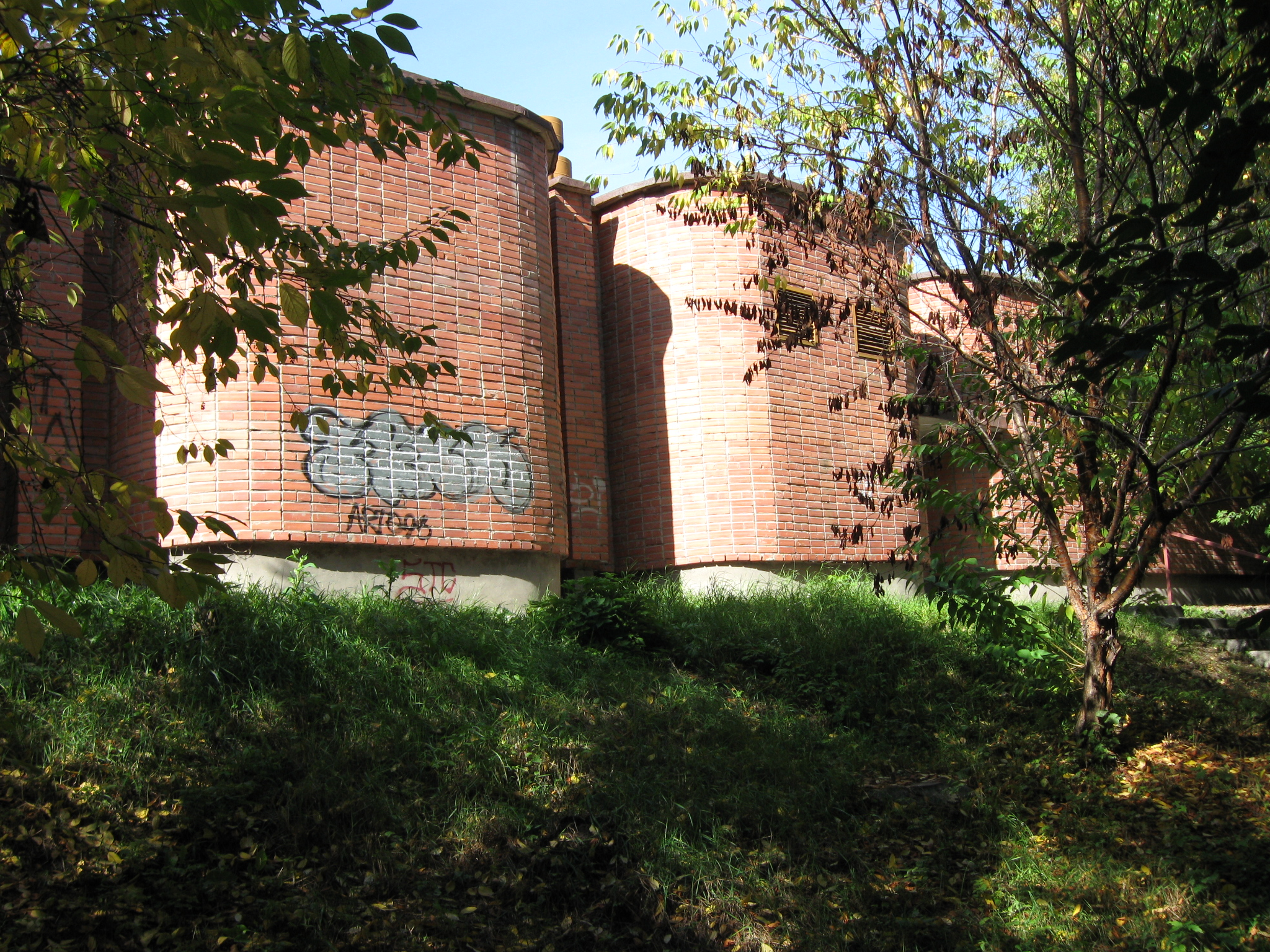 Unidentified installation near Sportivnaya subway station suspended construction site, Novosibirsk.